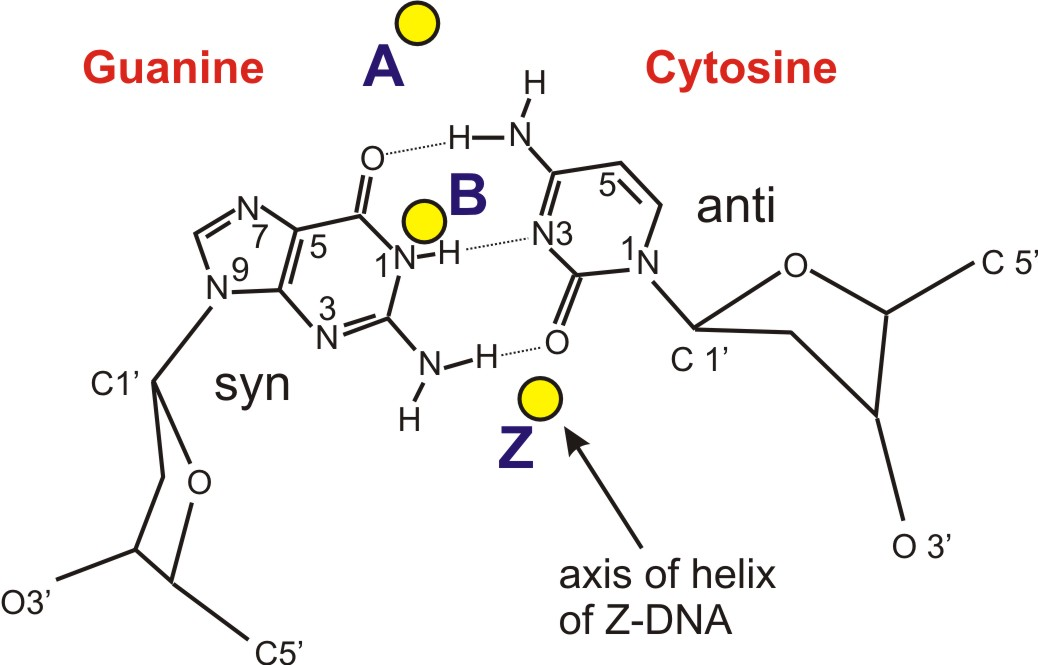 source: Lankenau, D.-H. 1984. Cytochemische Untersuhungen zur chromosomalen differenzierung nächst-verwandter Carabiden-Arten (Col., Insecta). Diploma. Münster, Münster. modernized using CoralDraw.